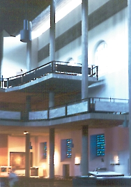 Karlsruhe, Germany: Stadtkirche (City Church) on the Marktplatz, interior, 1953-1958, designed by Horst Linde. Modern movement. Photo taken by myself in may or june 2002.